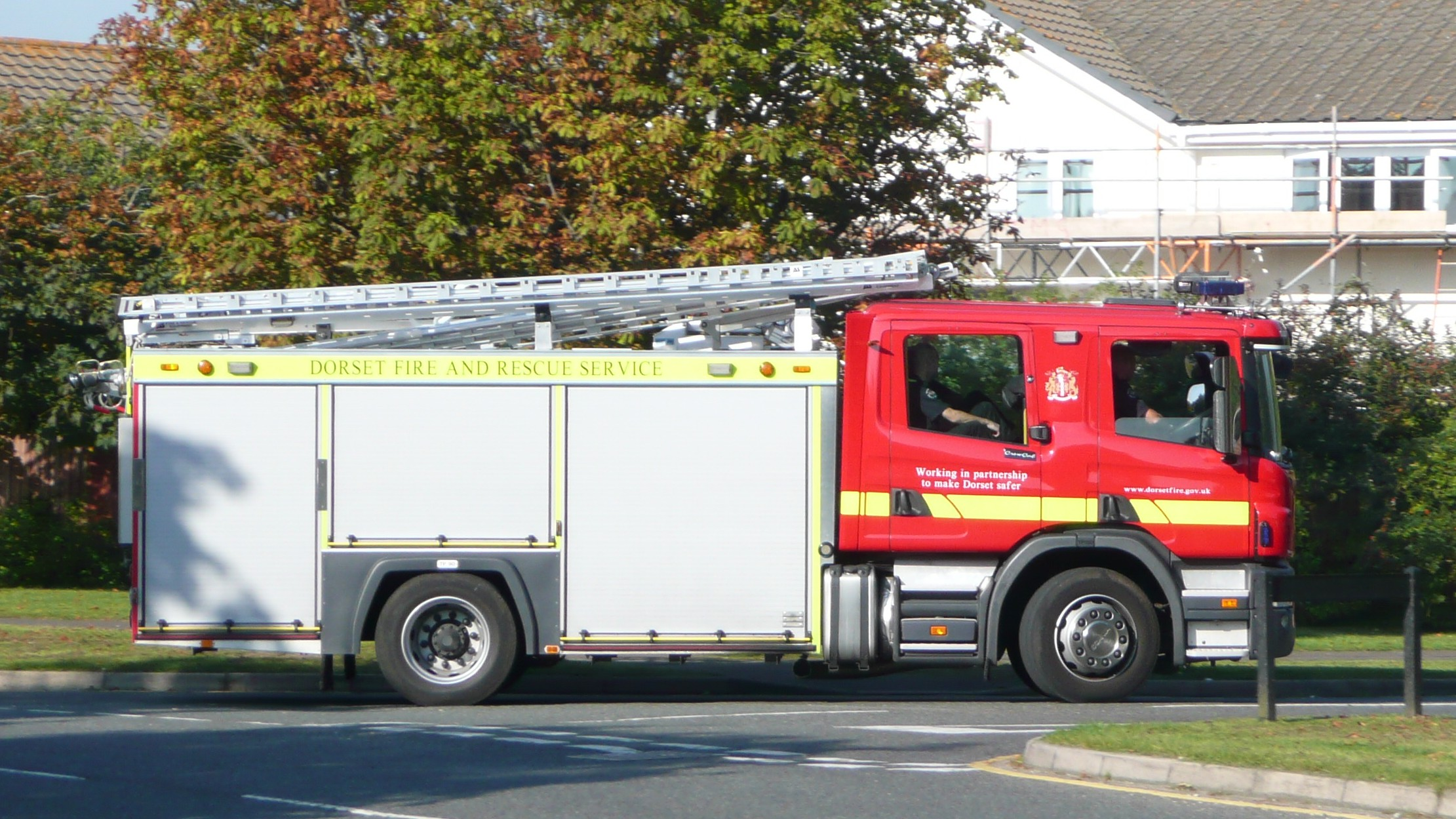 A Scania fire engine of the Dorset Fire and Rescue Service, turning from The Runway into Bure Lane, in Mudeford, Christchurch.